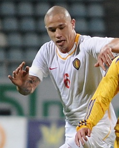 Radja Nainggolan